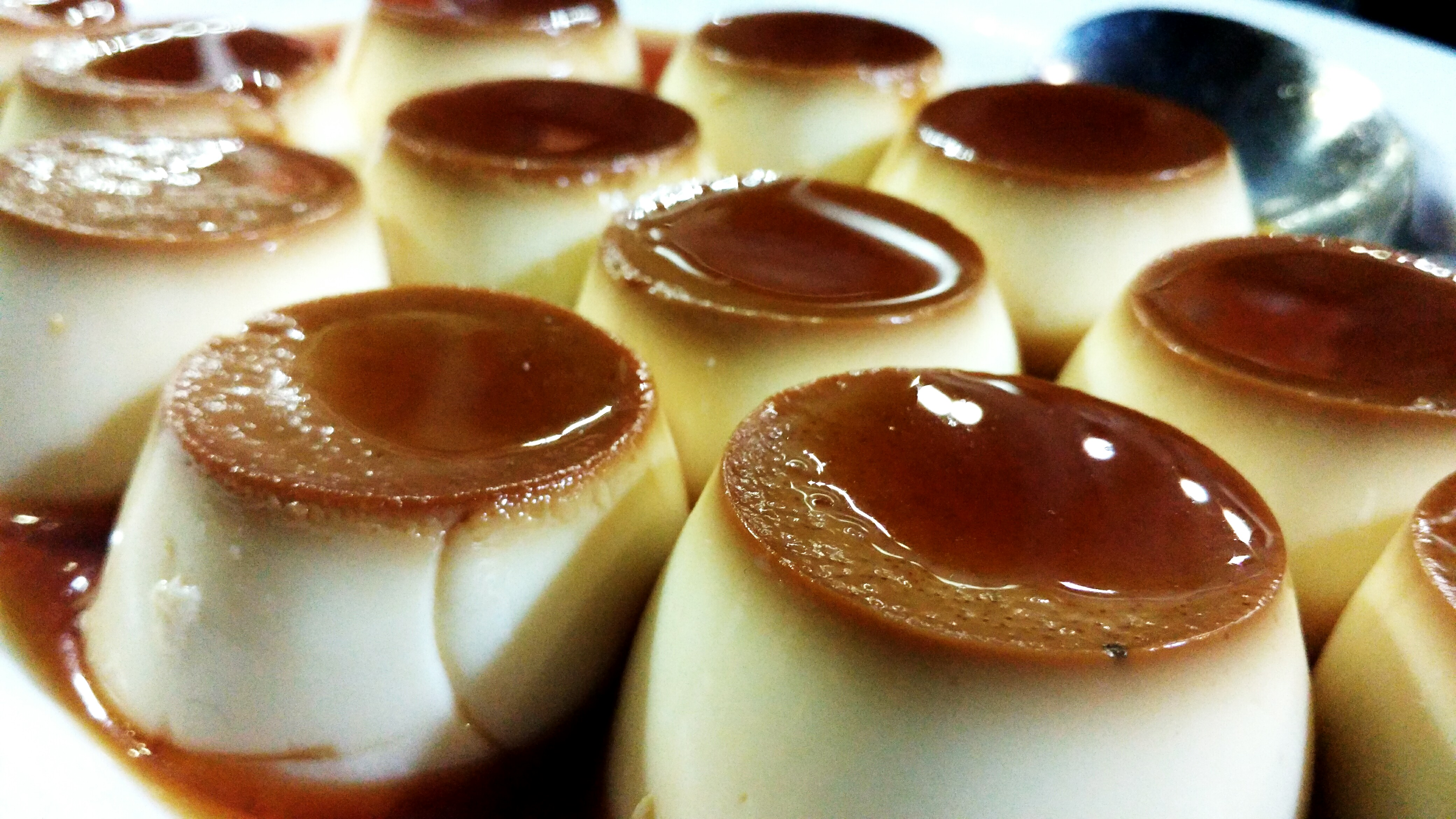 A French crème caramel (also called flan au caramel)